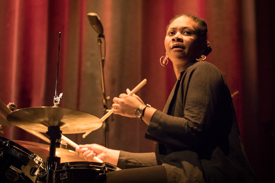 Shirazette Tinnin performs with Allan Harris at the stage of Cosmopolite. The concert took place on 04. May 2017 in Oslo. Lineup: Allan Harris (vocal) Miki Hayama (piano) Shirazette Tinnin (drums) Paco Perera (double bass)